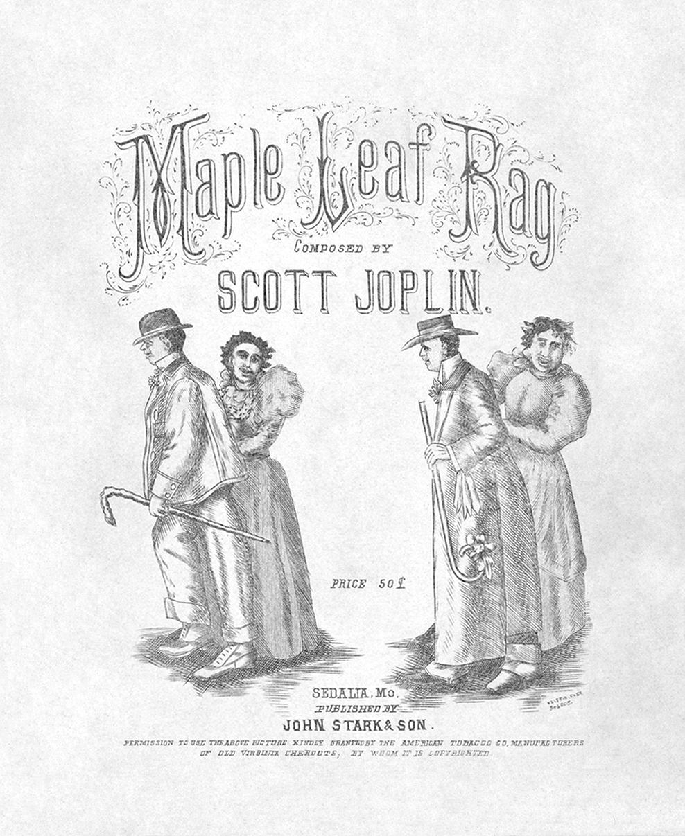 "Maple Leaf Rag" first edition sheet music. Cover page: part 1 of 4.